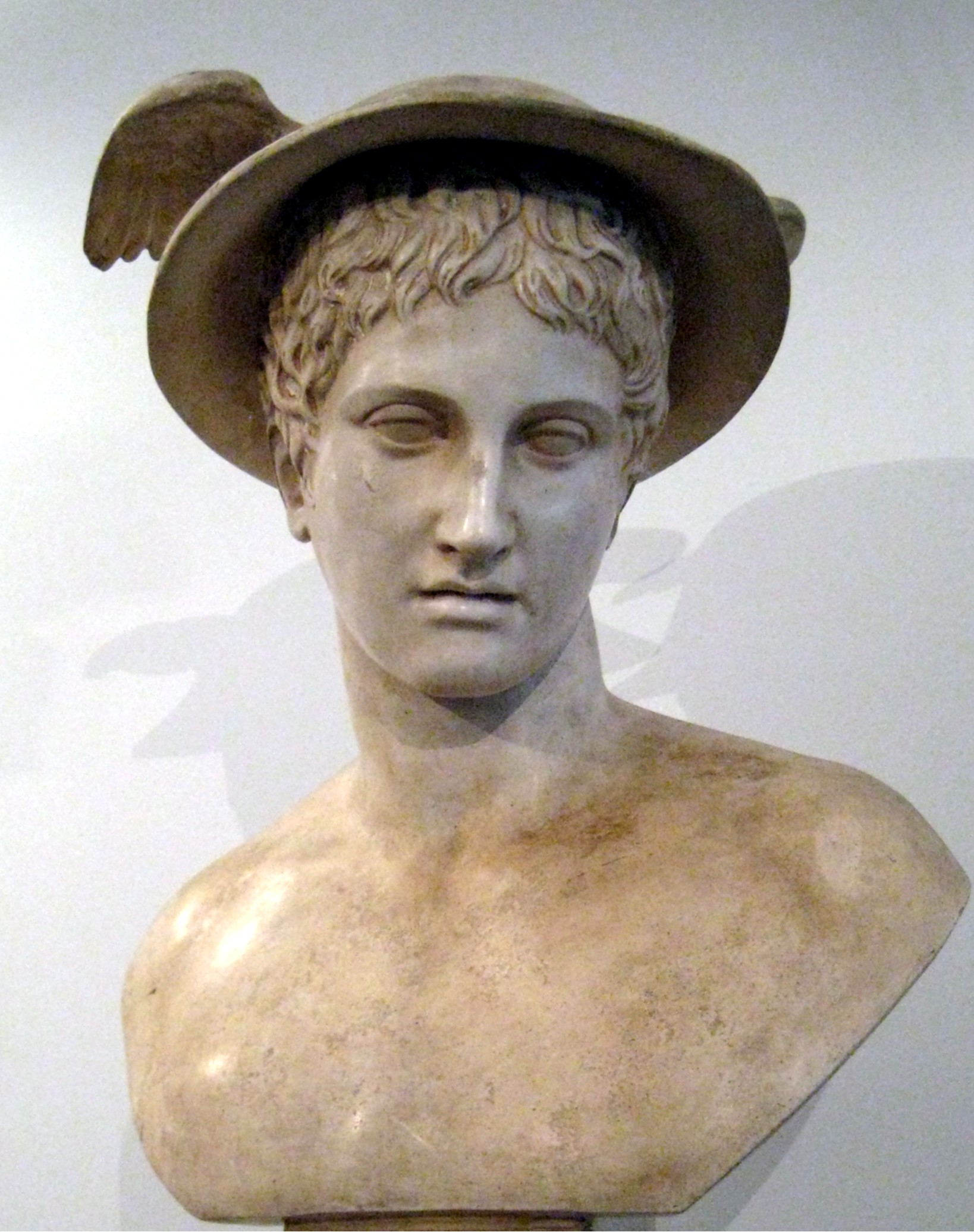 Bust of Hermes